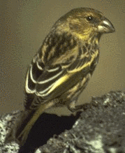 Nihoa finch (Telespiza ultima) on Nihoa Island, Northwestern Hawaiian Islands